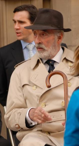 Christopher Lee filming in Westminster for a film called The Heavy